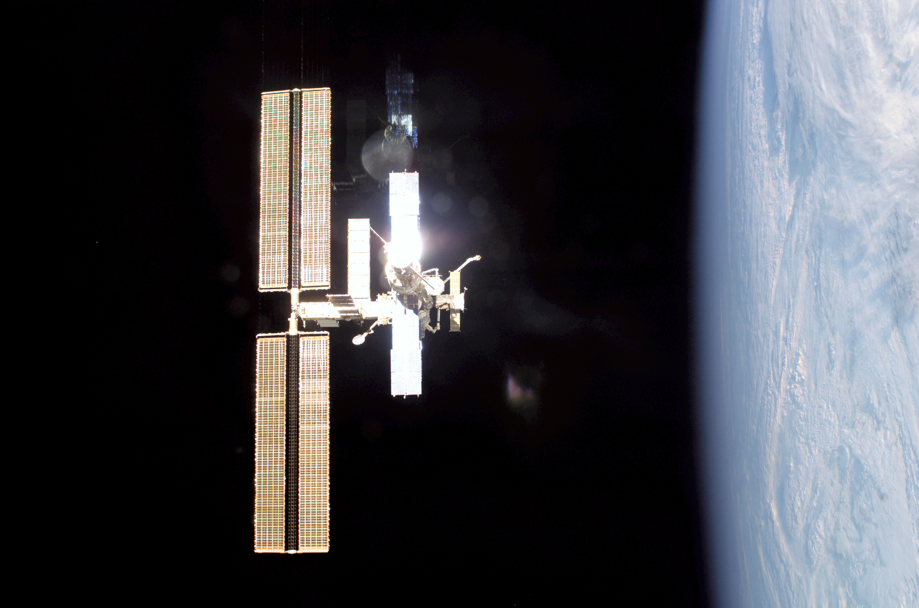 ISS as seen from Shuttle Endeavour during Expedition Four. (NASA) As seen in a wide view from a digital still camera aimed through a window on Endeavour's aft flight deck, the International Space Station (ISS), now staffed with its fourth three-person crew, is backdropped against dark space over a horizon scene of the blue and white Earth during a farewell look from the shuttle following undocking.